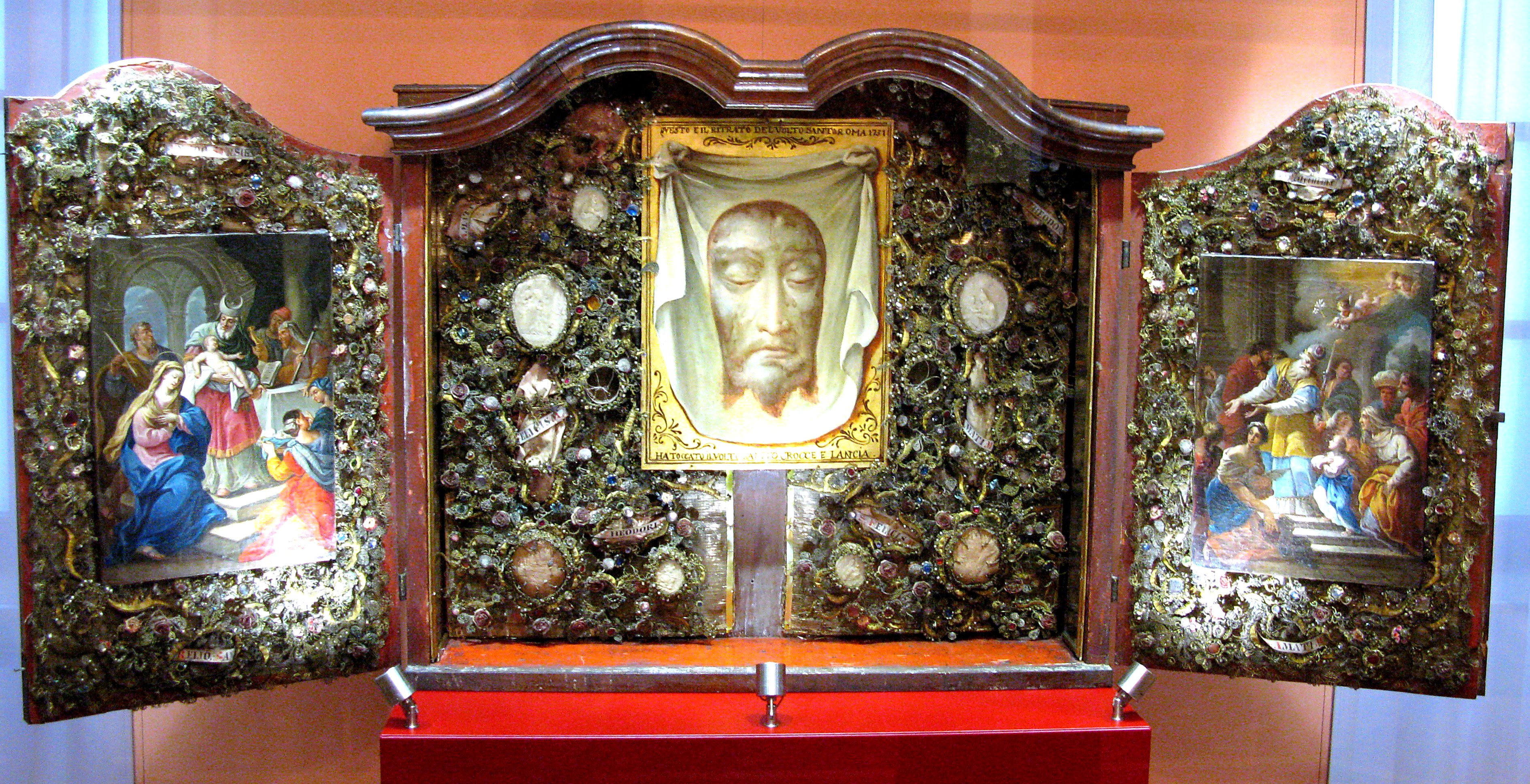 Portable Altar of the Polish Bishop (XVIII century)